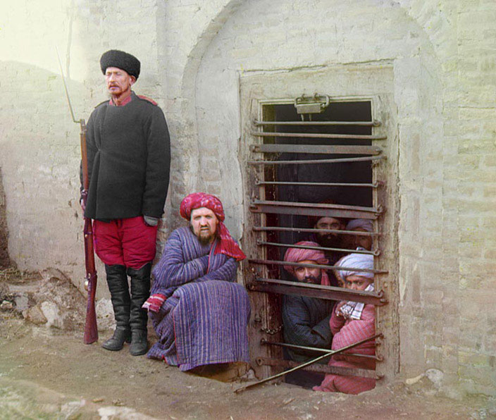 1907 prison guarded by Russian soldier